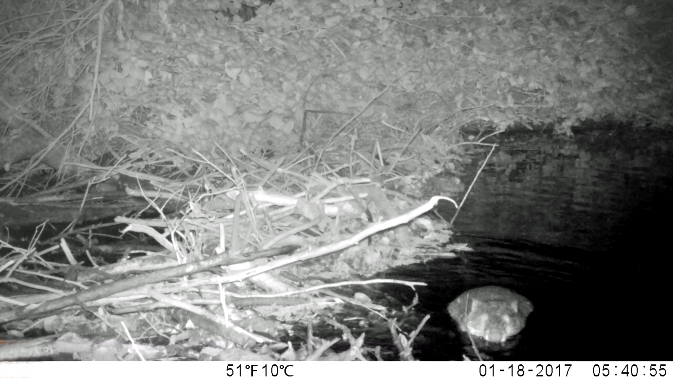 Night motion photography of beaver and dam on lower Los Gatos Creek, tributary to the Guadalupe River in Santa Clara County, California, courtesy of South Bay Clean Creeks Coalition.